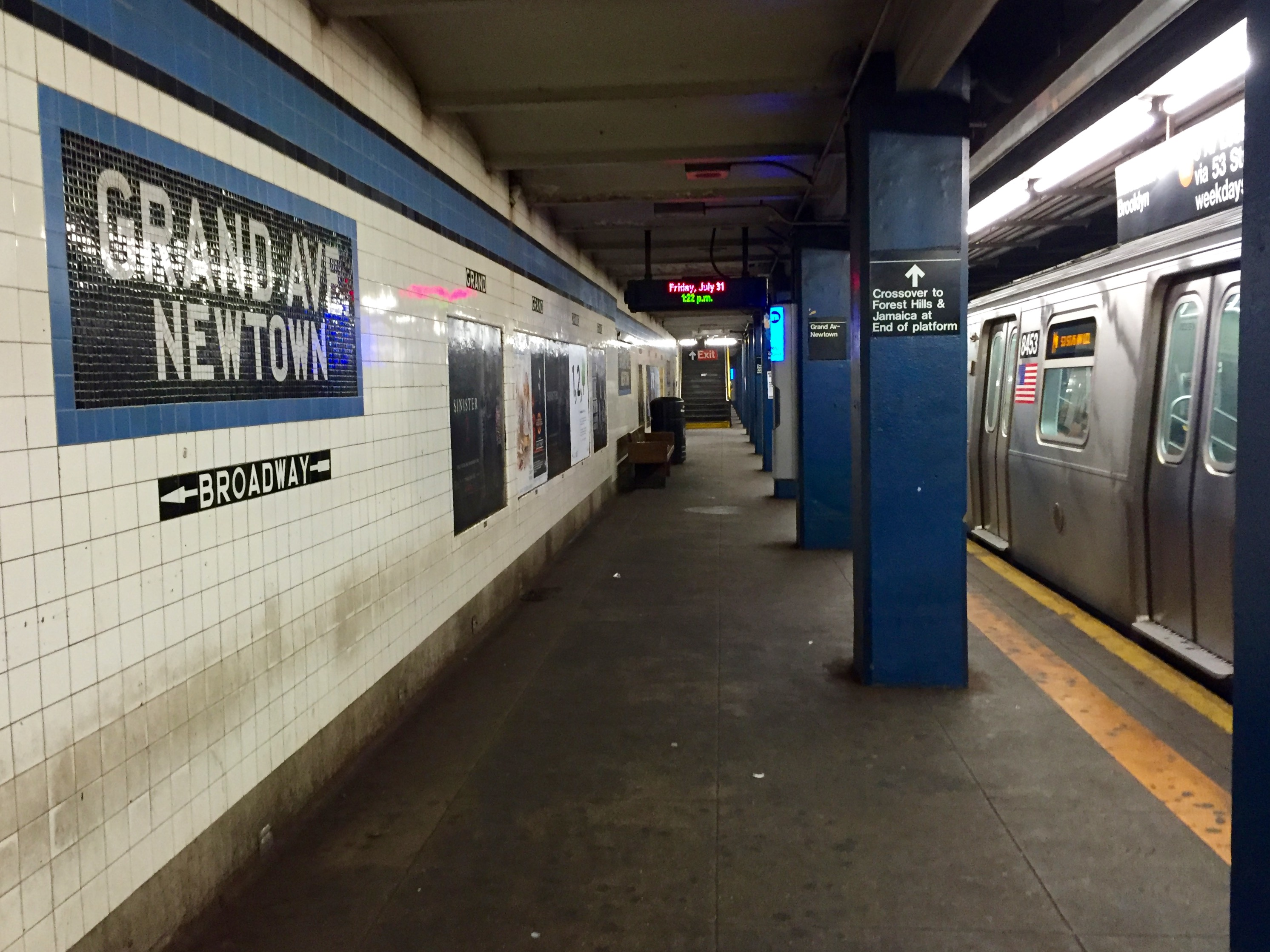 Manhattan bound platform at Grand Avenue on the M/R.